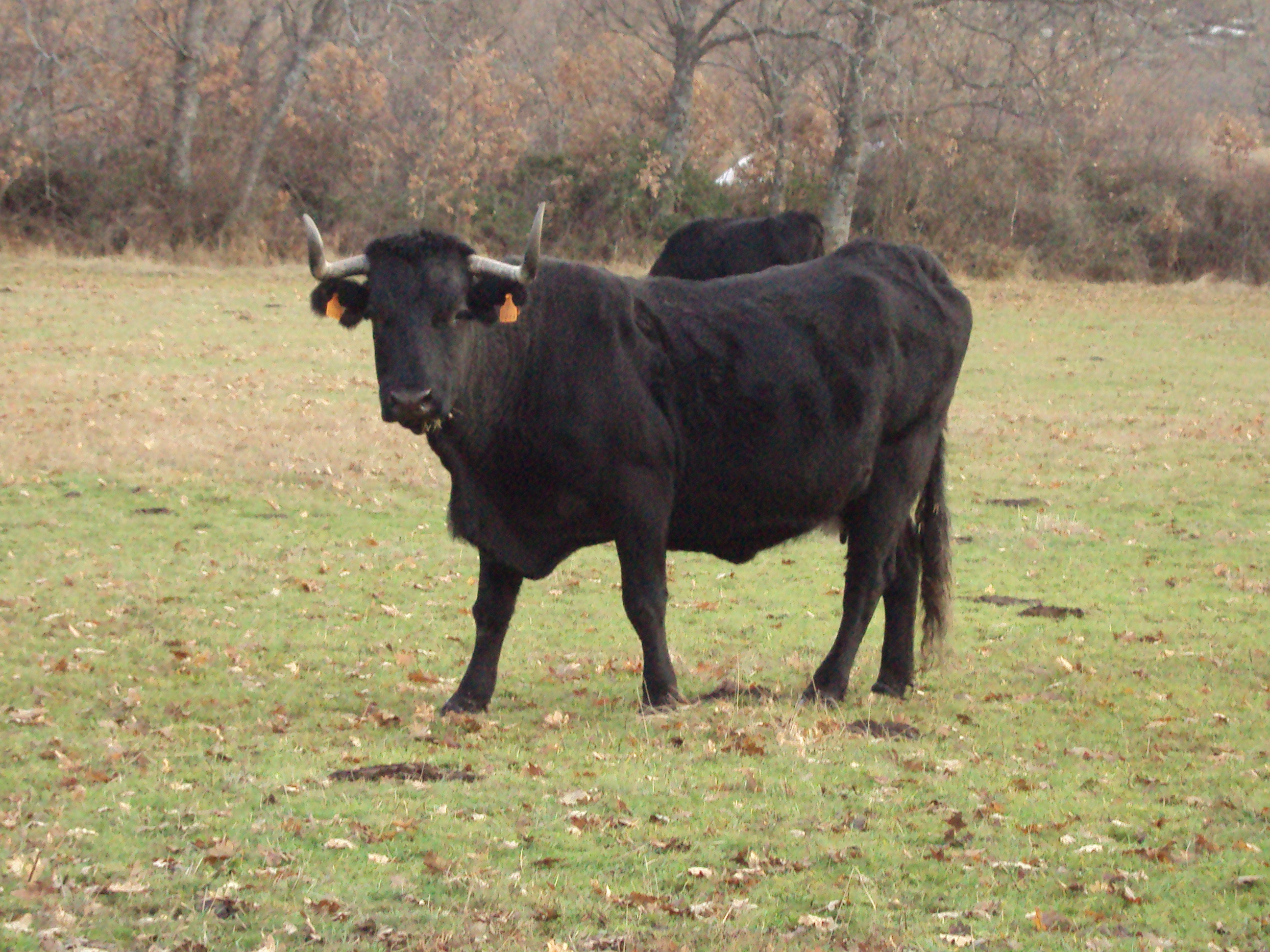 Avileña-Negra Iberian cow in the Sierra de Villafranca, Ávila, Spain